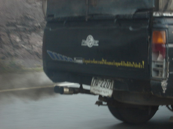 black smoke from exhaust (running pick-up) - Phetchabun, Thailand